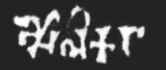 Aulikara in the Rishtal inscription